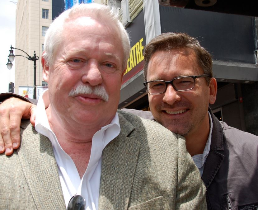 Armistead Maupin and Christopher Turner at a ceremony for Olympia Dukakis to receive a star on the Hollywood Walk of Fame.